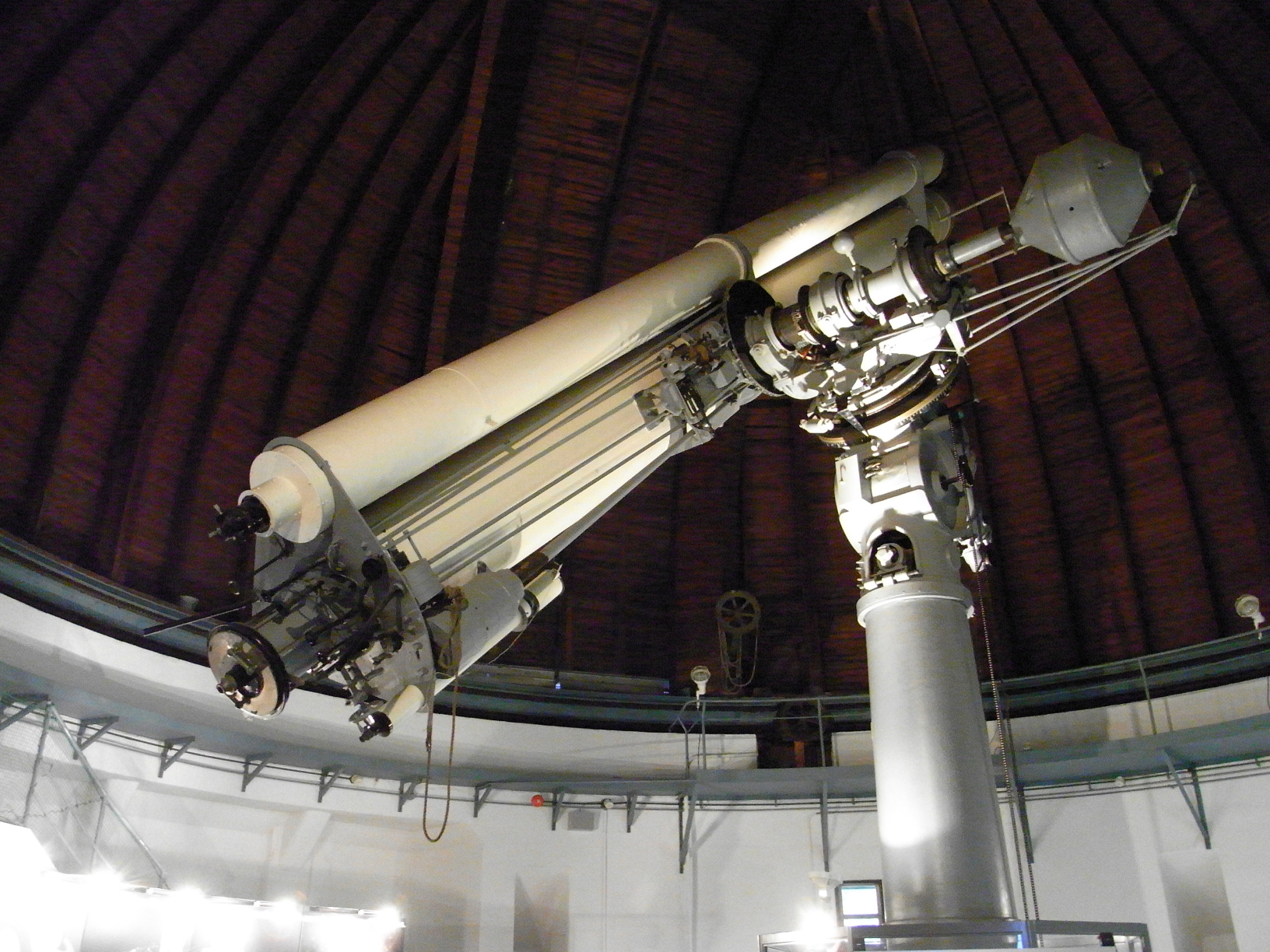 65cm refractor telescope in Mitaka campus of National Astronomical Observatory of Japan, Mitaka, Tokyo, Japan. The telescope was manufactured by Carl Zeiss Jena in 1929.